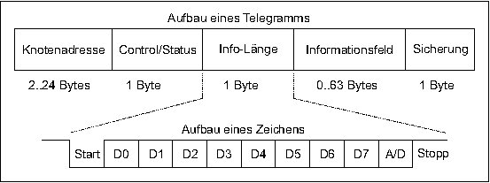 P-NET Layer 2, regarding the OSE reference modell